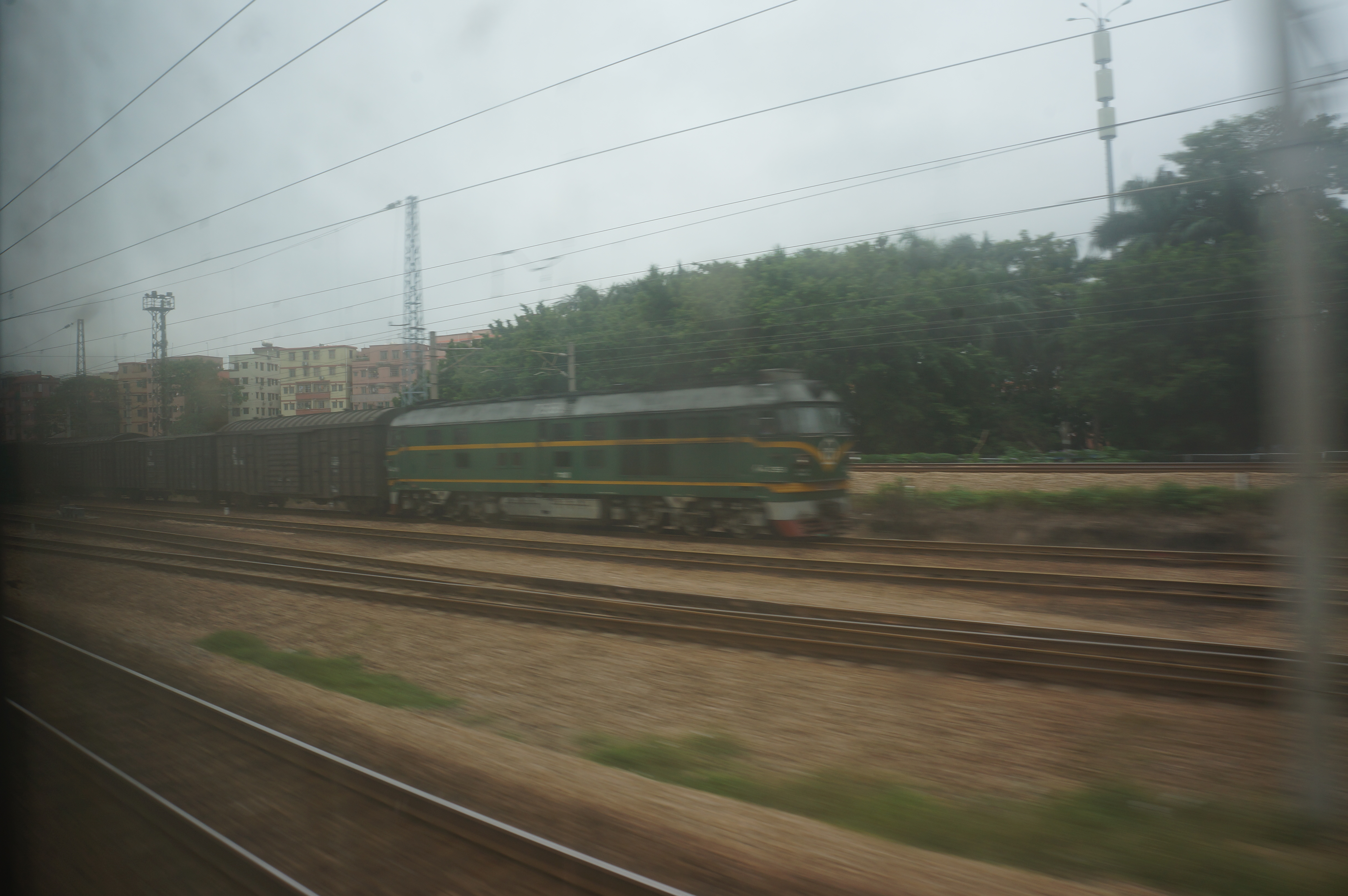 201609 Z817 passes Jishan Station